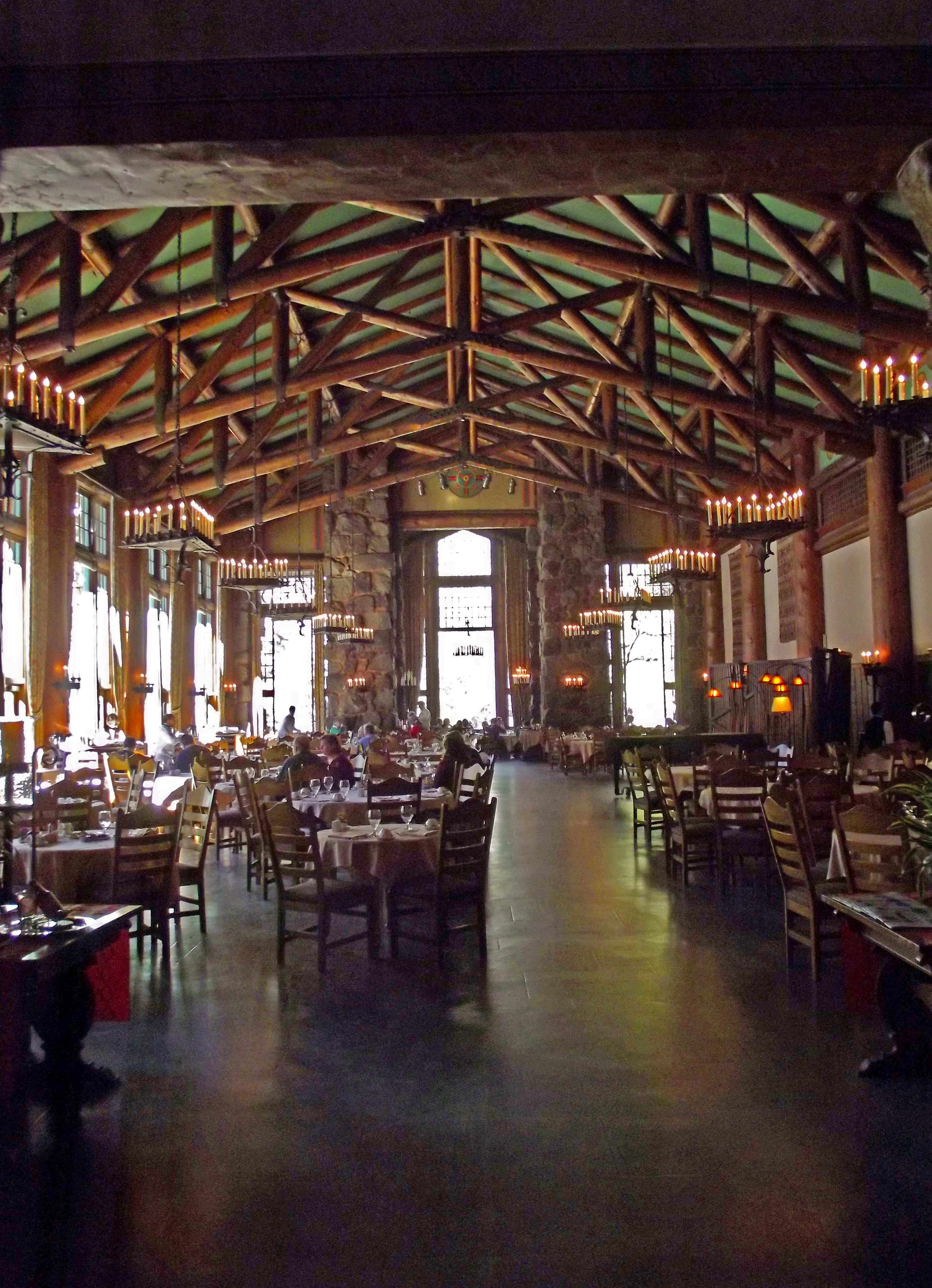 The dining room as seen from the front entrance. The Dining room takes up the enter main floor of this wing of the building.